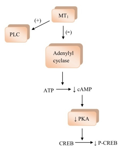 MT1 melatonin receptor signaling